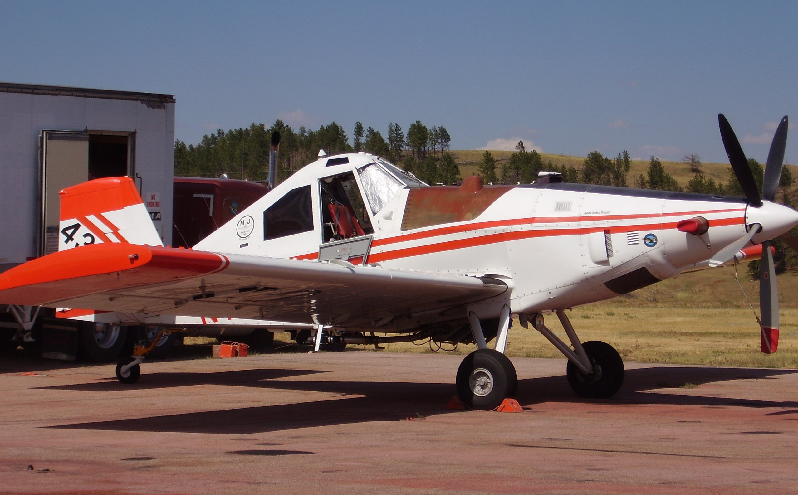 An Ayers Turbo Thrush used in South Dakota for wildland firefighting.